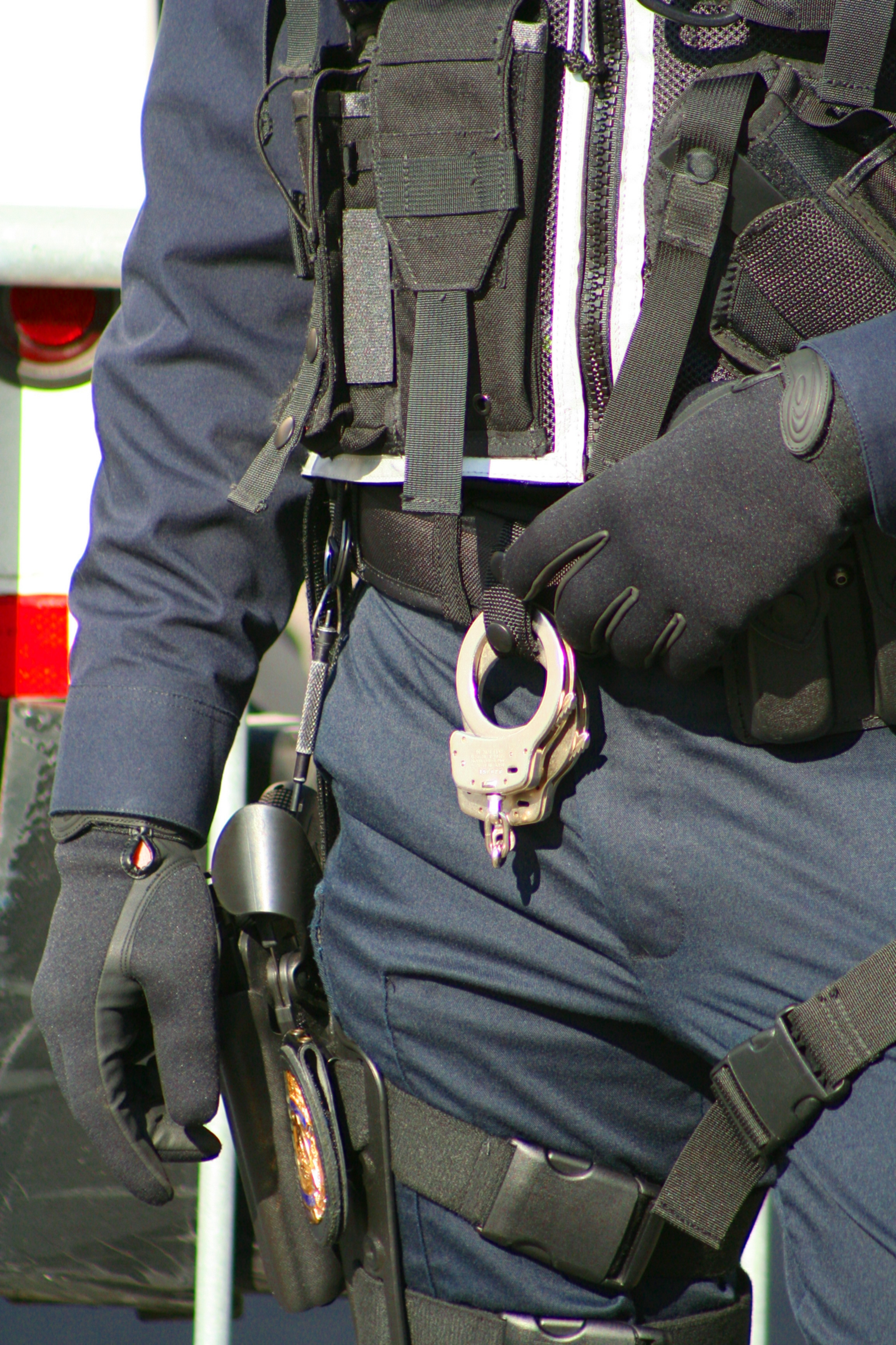 A police officer of the United States Capitol standing at the corner of Constitution Avenue and First Street, N.W., at a United for Peace and Justice march.